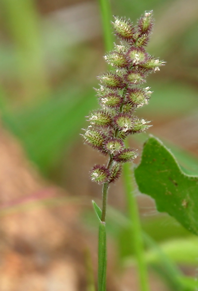 Tragus roxburghii in Keesara, Rangareddy district, Andhra Pradesh, India.